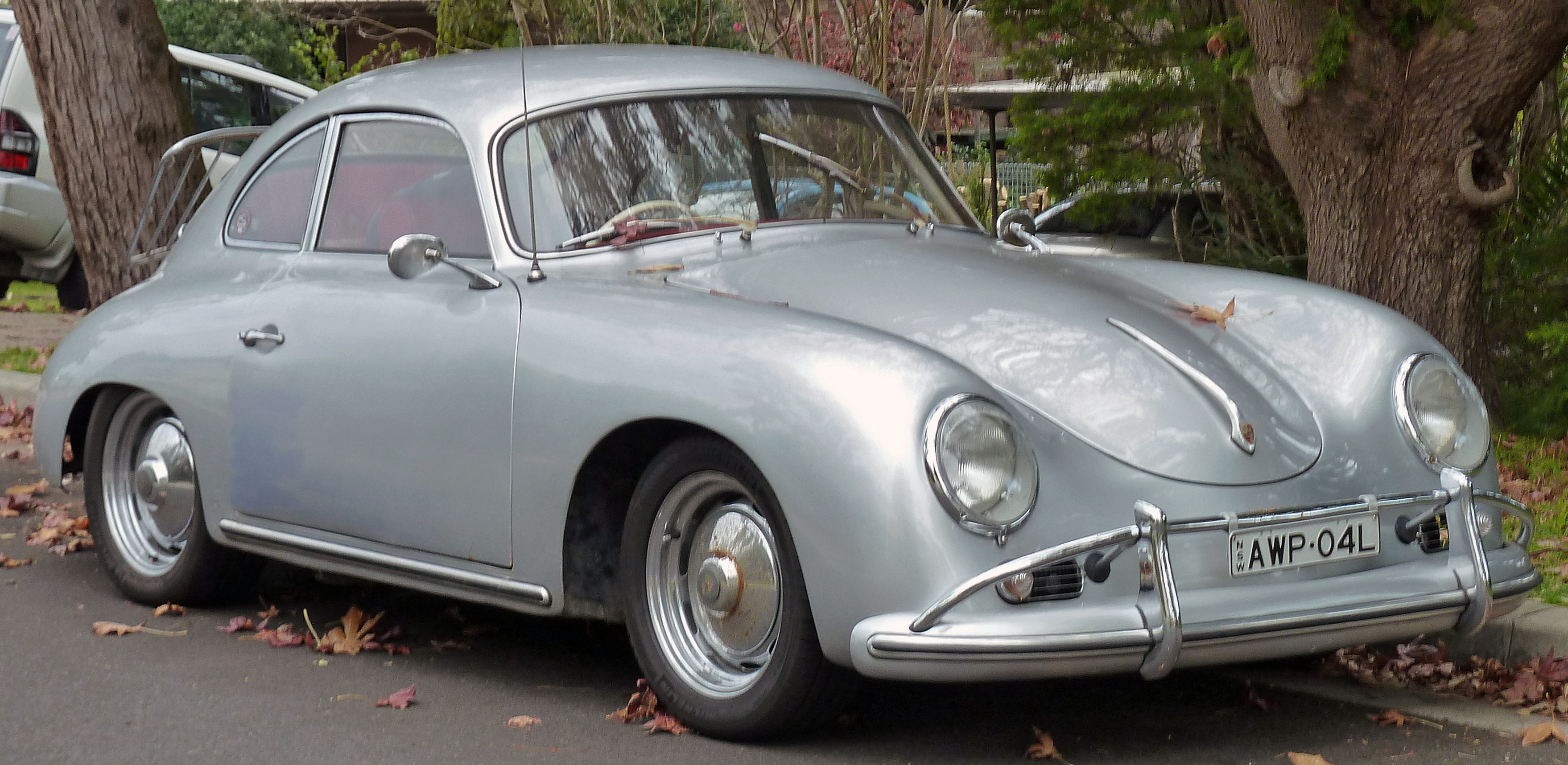 1958 Porsche 356 1600 Super coupe. Photographed in Cronulla, New South Wales, Australia.